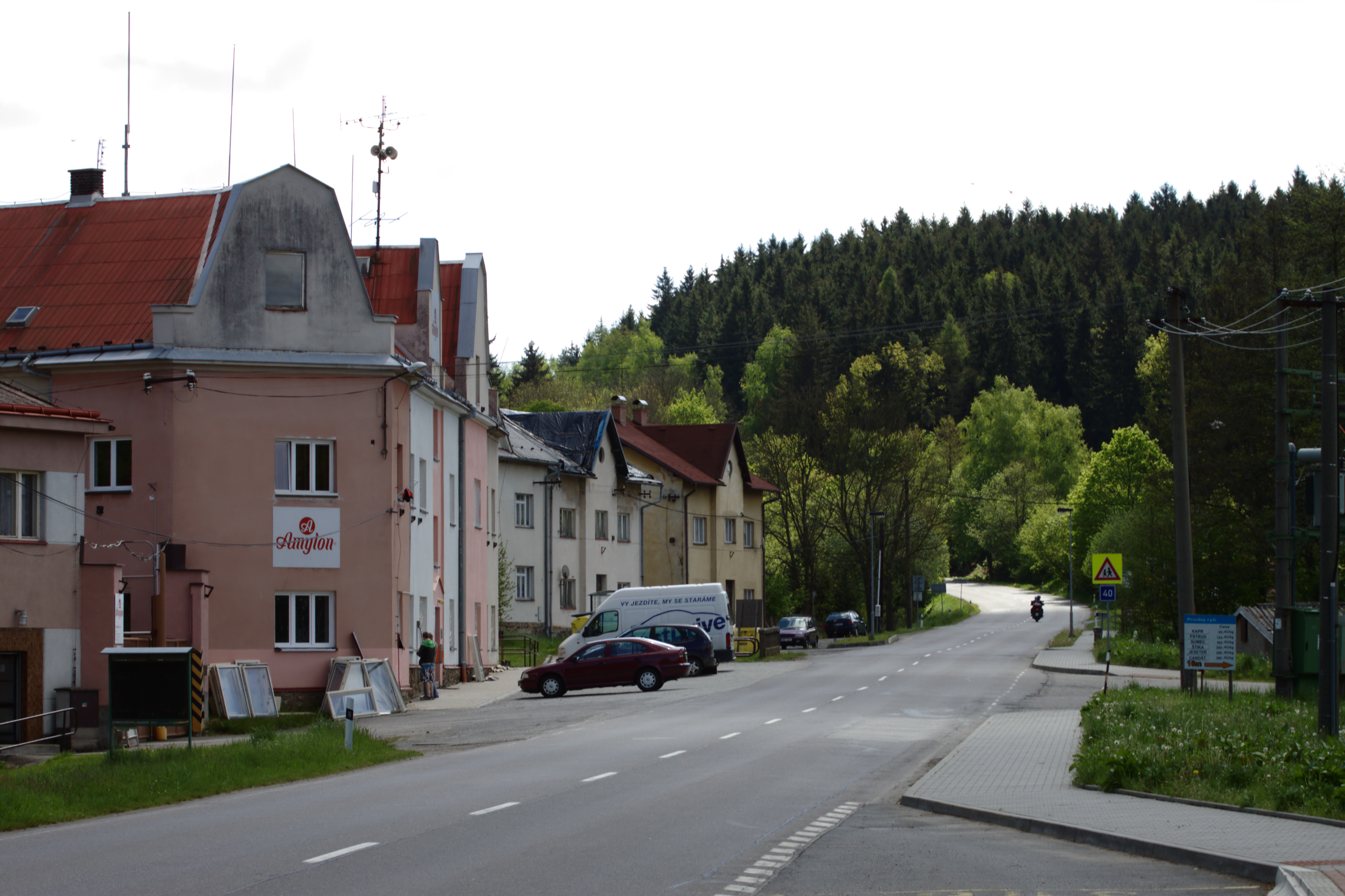 Main road in Ronov nad Sázavou, Vysočina Region, CZ